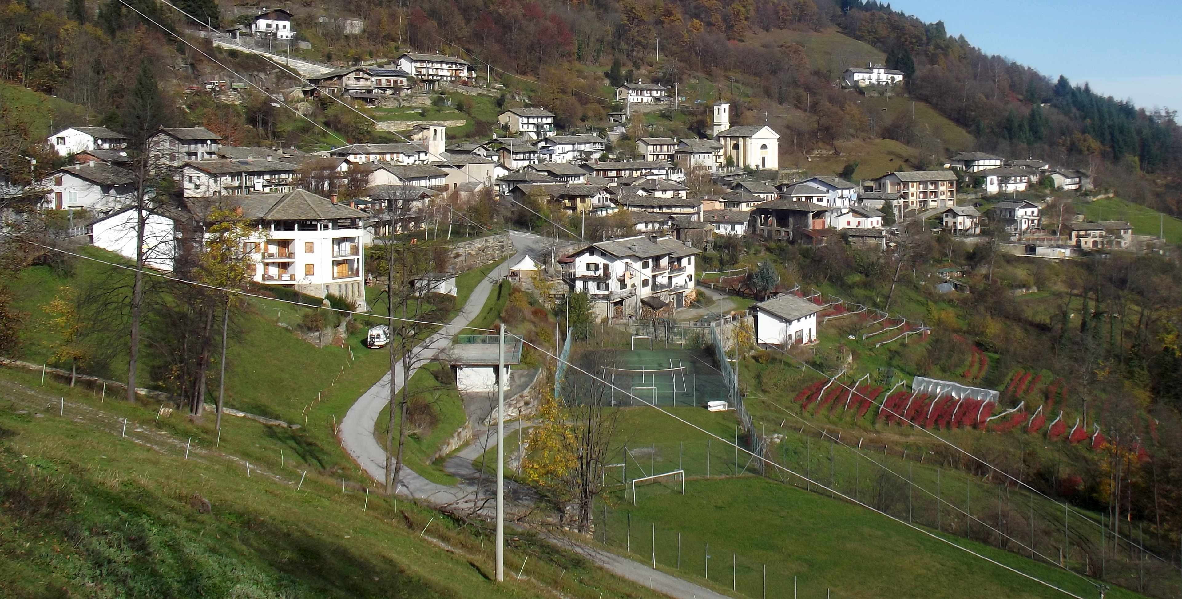 Rorà (TO, Italy): panorama